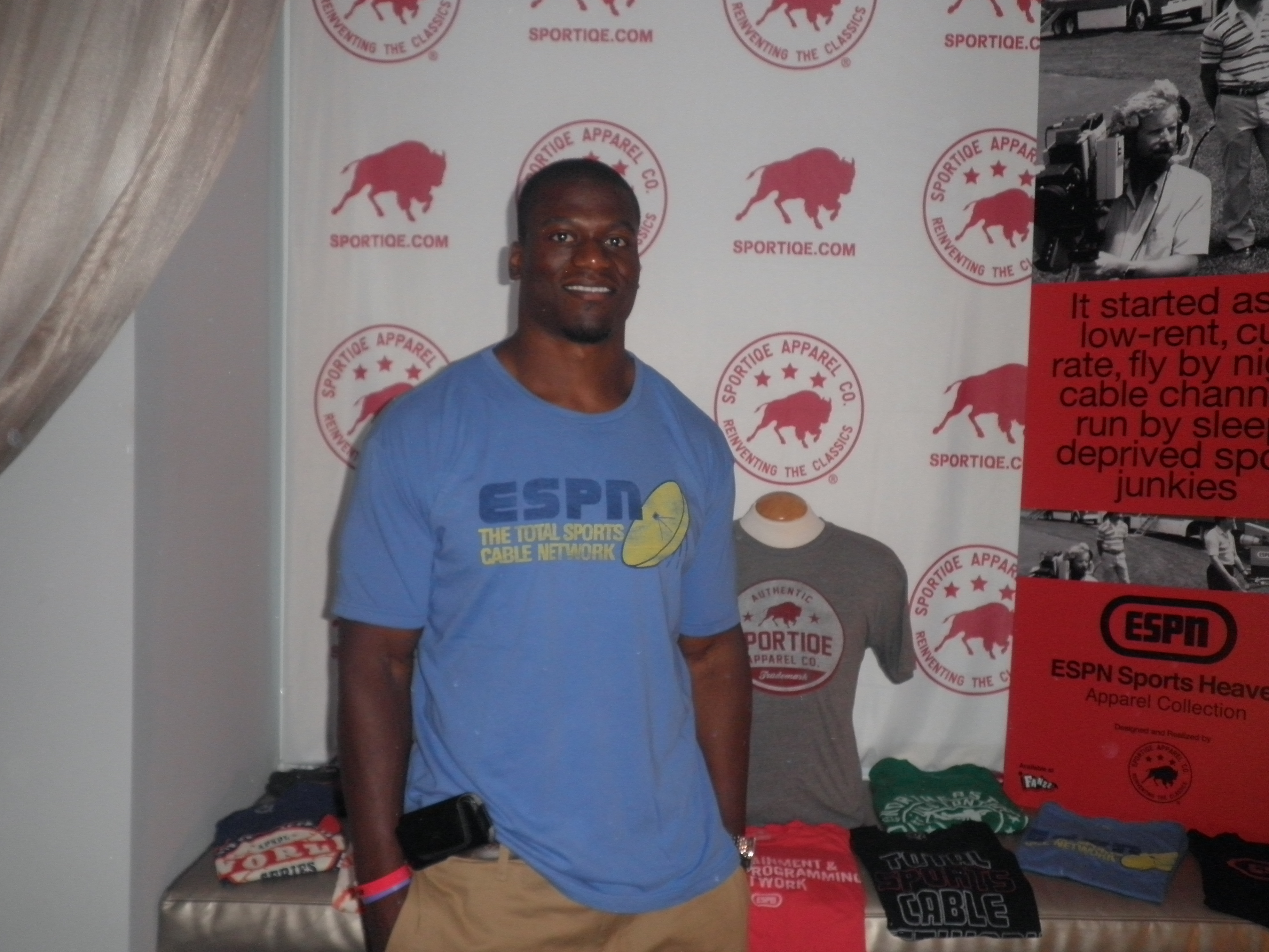 Benjamin Watson, Tight End, Cleveland Browns